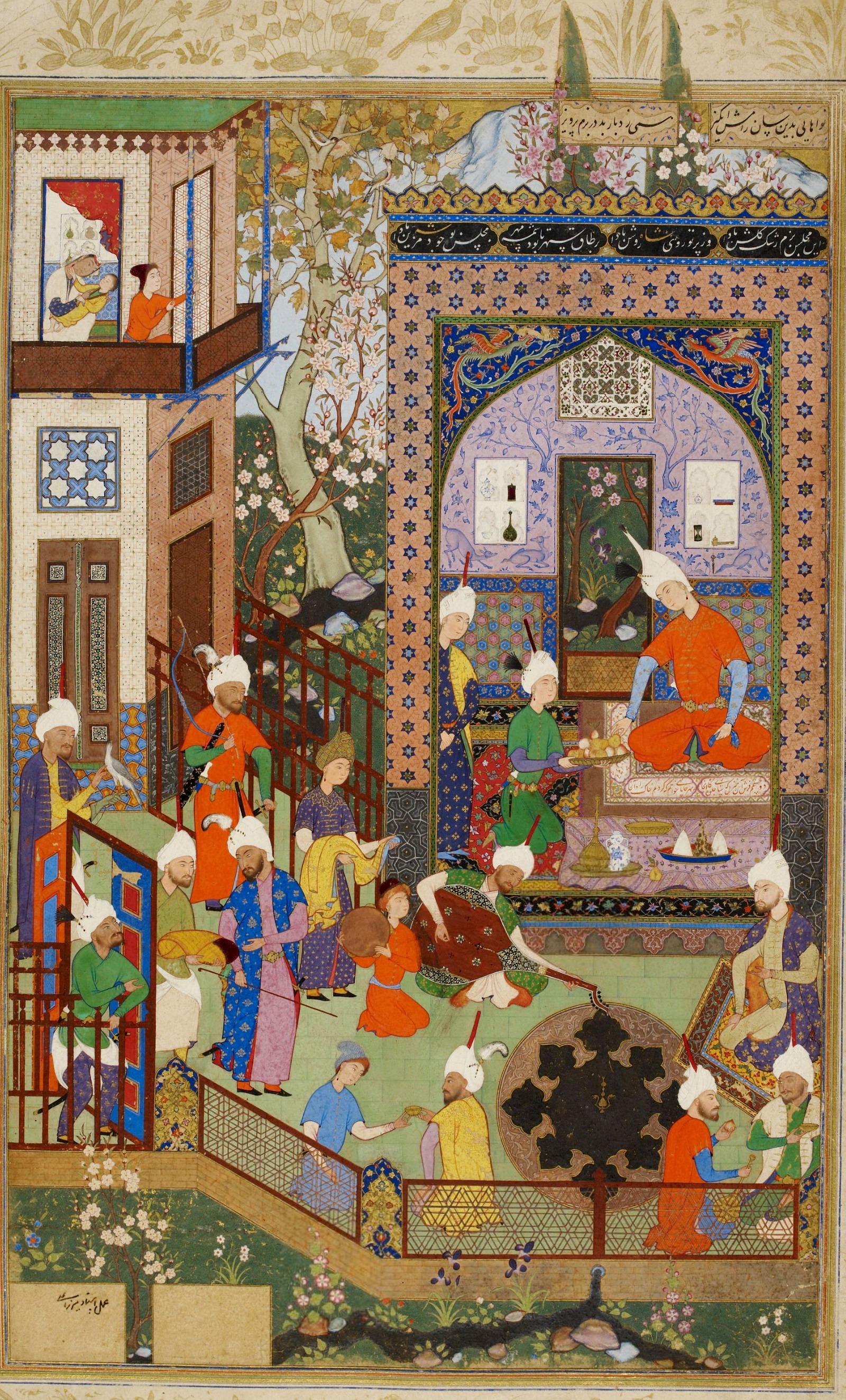 "Barbad Plays for Khusraw", Khamsa of Nizami, British Libary, Oriental 2265